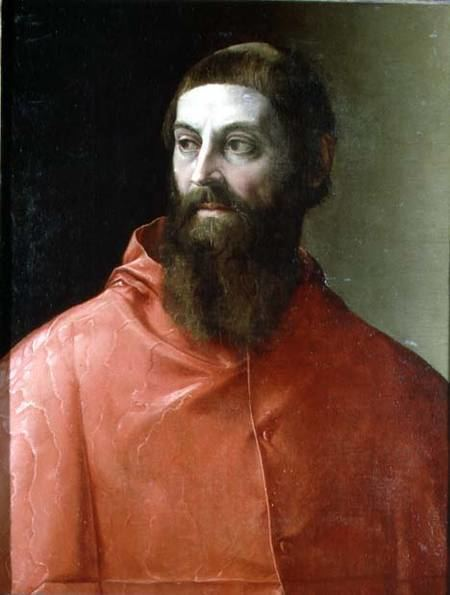 Bishop Francesco Salviati